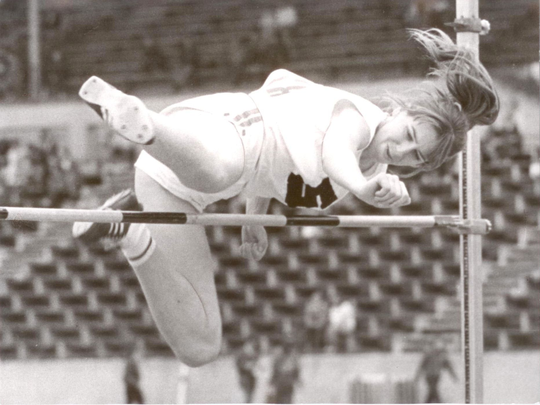 Czechoslovak athlet Jaroslava Valentová